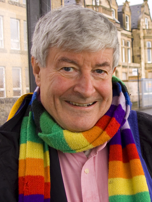 Robin Harper, MSP for Lothian region from 1999 to present, at a bus stop on Lower Granton Road, Edinburgh.